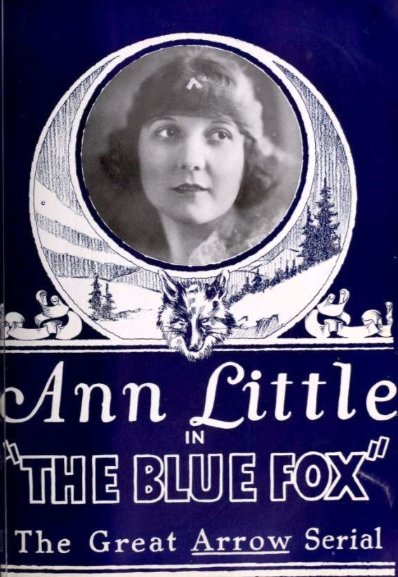 Advertisement for the American film serial The Blue Fox (1921) with Ann Little, from the insert after page 18 of the June 4, 1921 Exhibitors Herald.